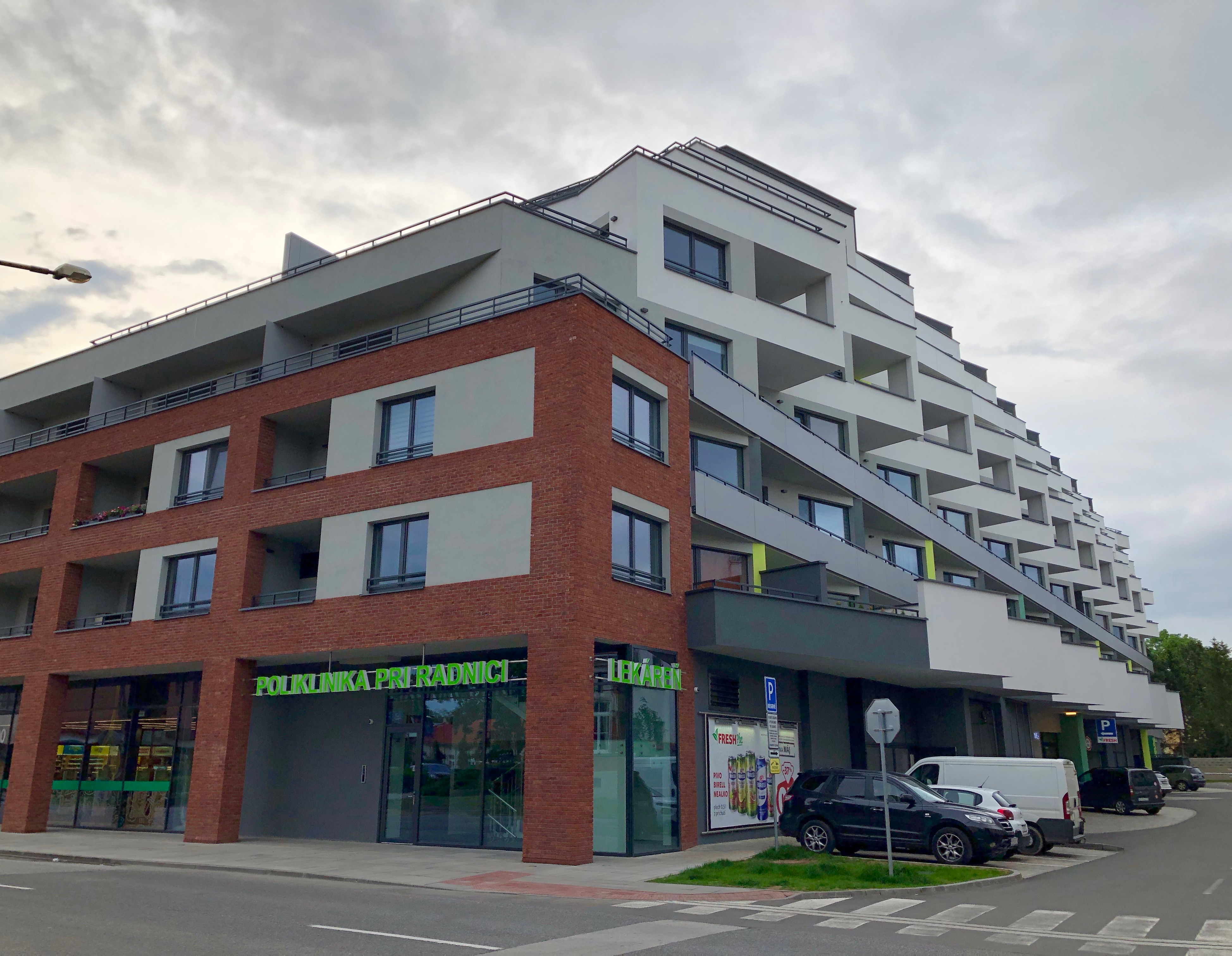 Residential complex called Rezidencia pri Radnici located in Košice, Slovakia